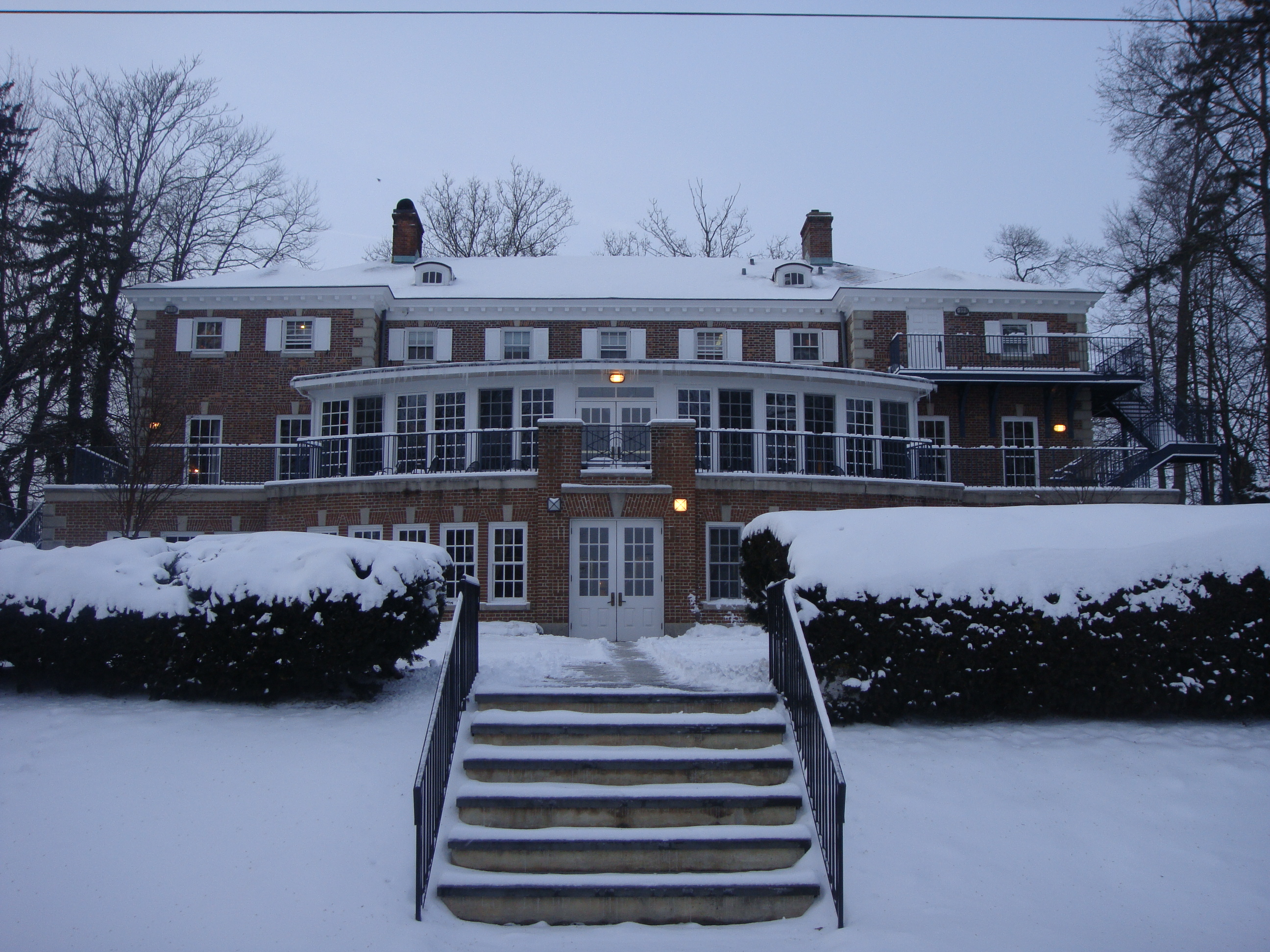 A photo of the Princeton Quadrangle Club from the back, taken in winter 2008.